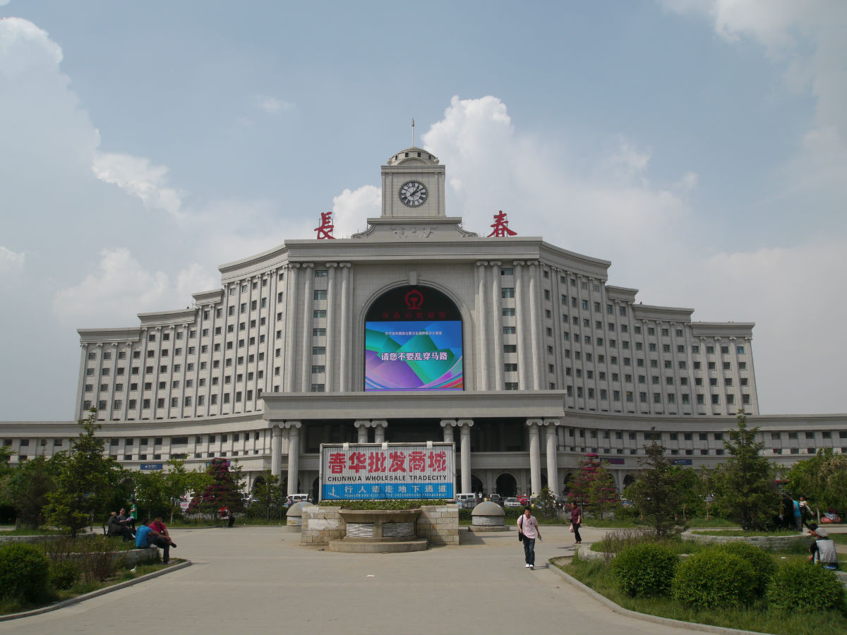 Changchun Railway Station